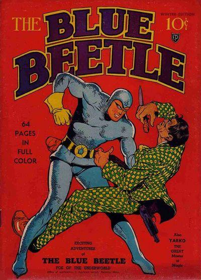 Cover scan of Blue Beetle, No. 1, Winter 1940, Fox Features Syndicate.